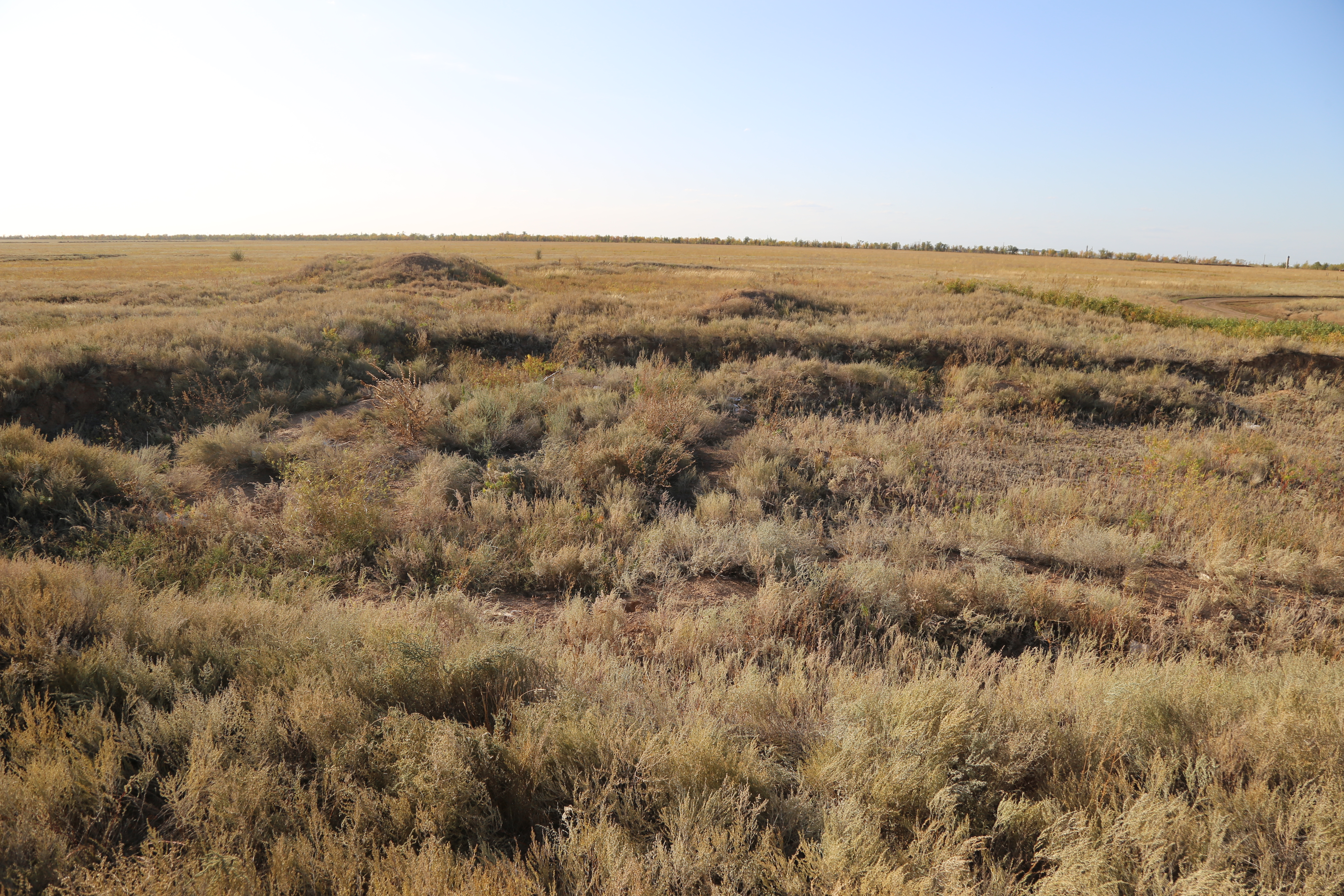 Zhaiyq